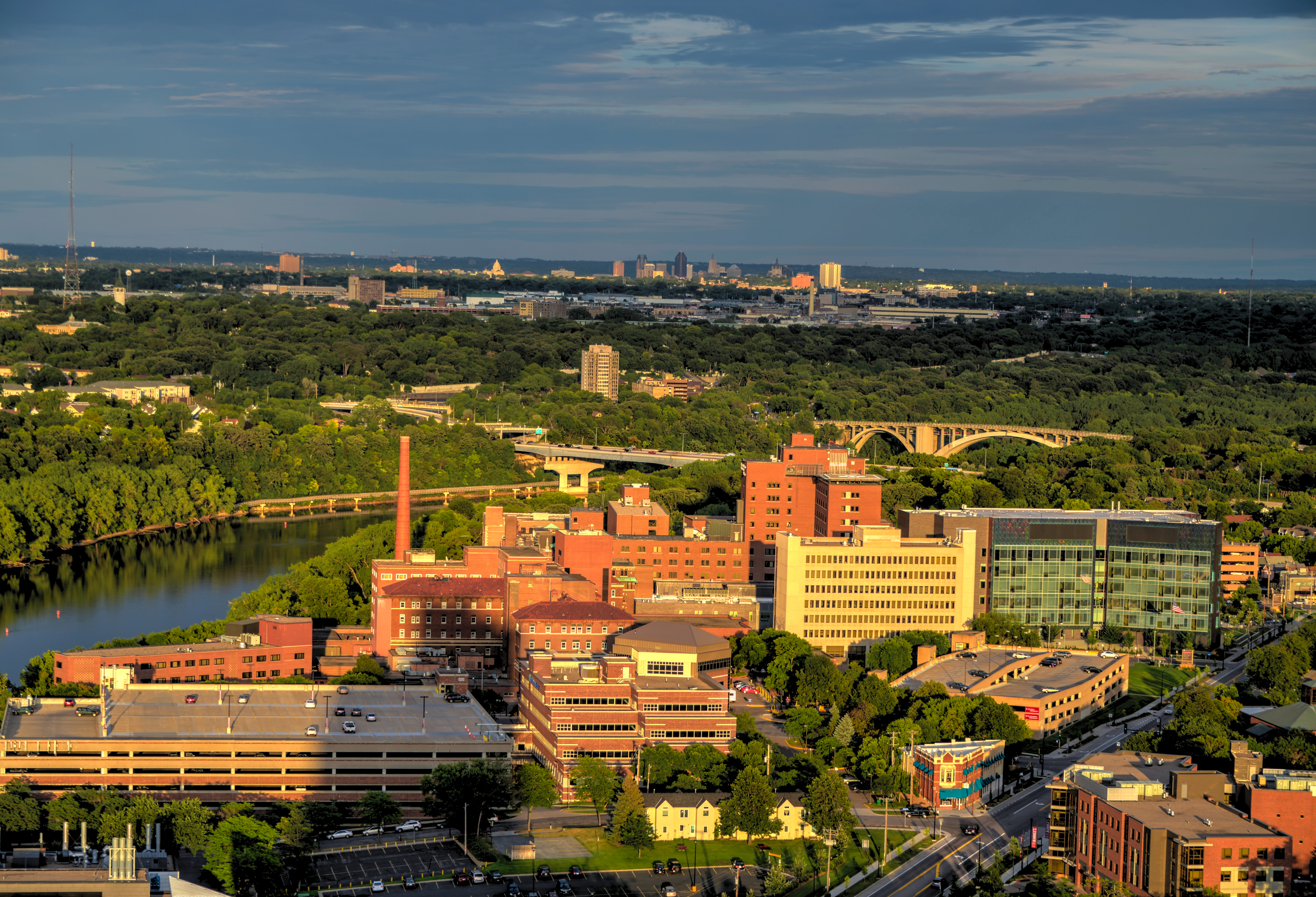 The buildings of the University of Minnesota's medical complex as viewed from Riverside Plaza.